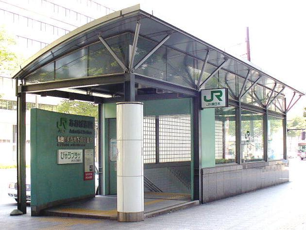 Aobadori Station on Senseki Line